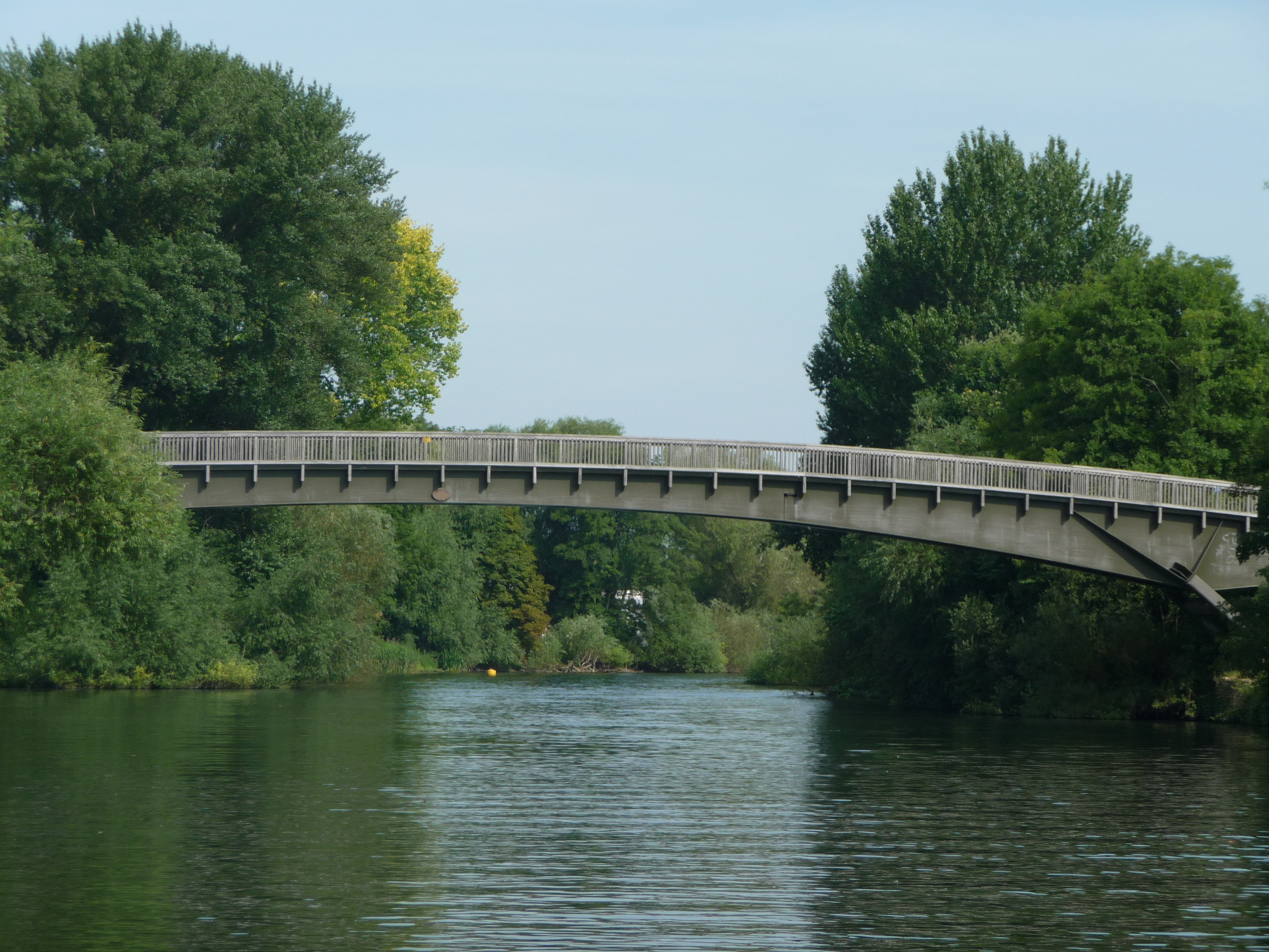 Summerleaze footbridge over the River Thames at Bray. Taken heading upstream.